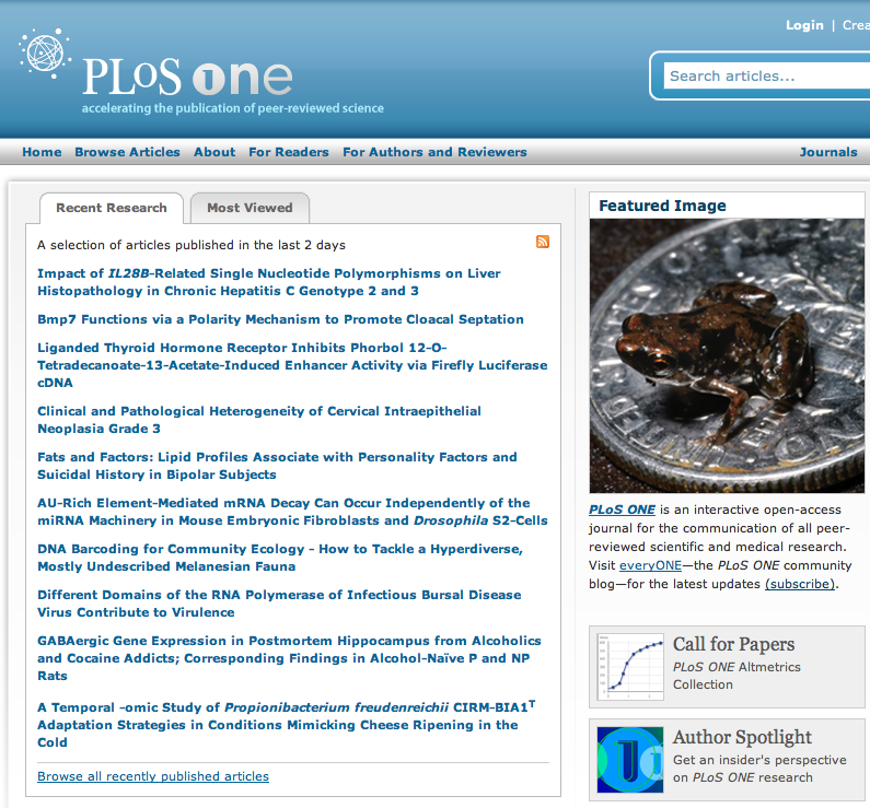 A screenshot (WebCite) of the [ Homepage] of the Open Access journal PLoS ONE, featuring an image (the source for File:Paratype of Paedophryne amauensis (LSUMZ 95004).png) of the frog species Paedophryne amauensis, whose taxonomic description had been published there on January 11.